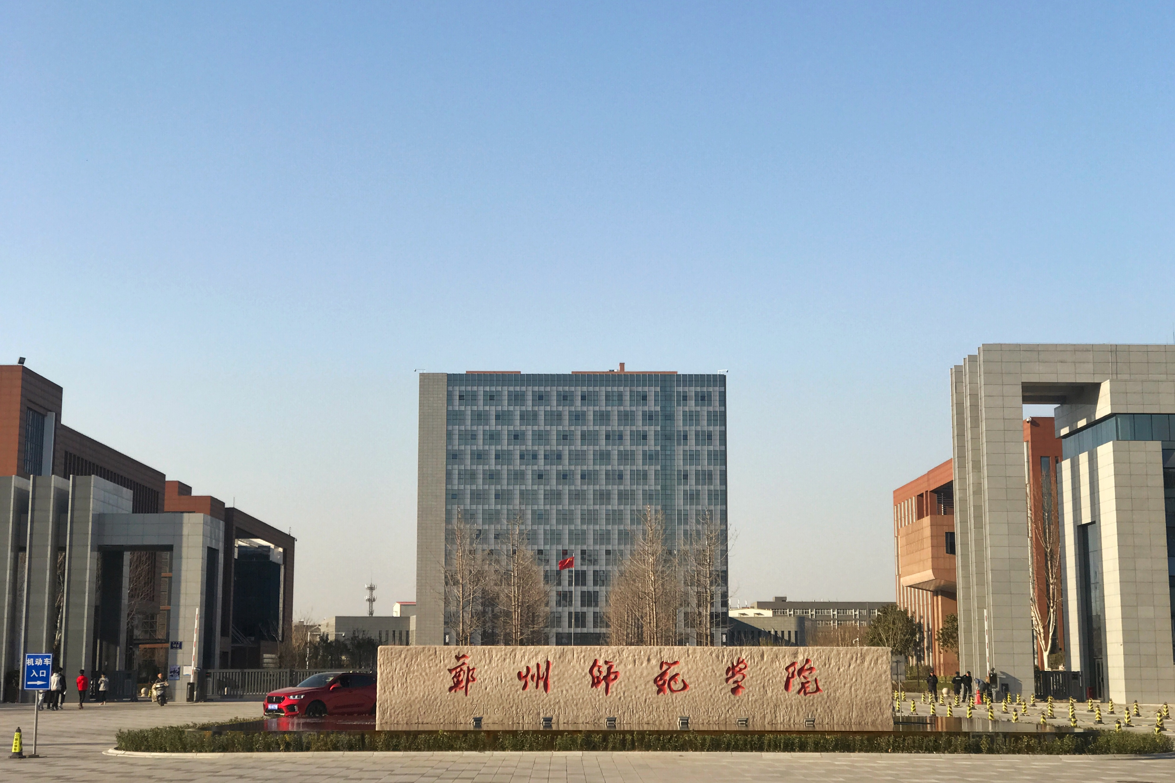 Main gate of Zhengzhou Normal University east campus